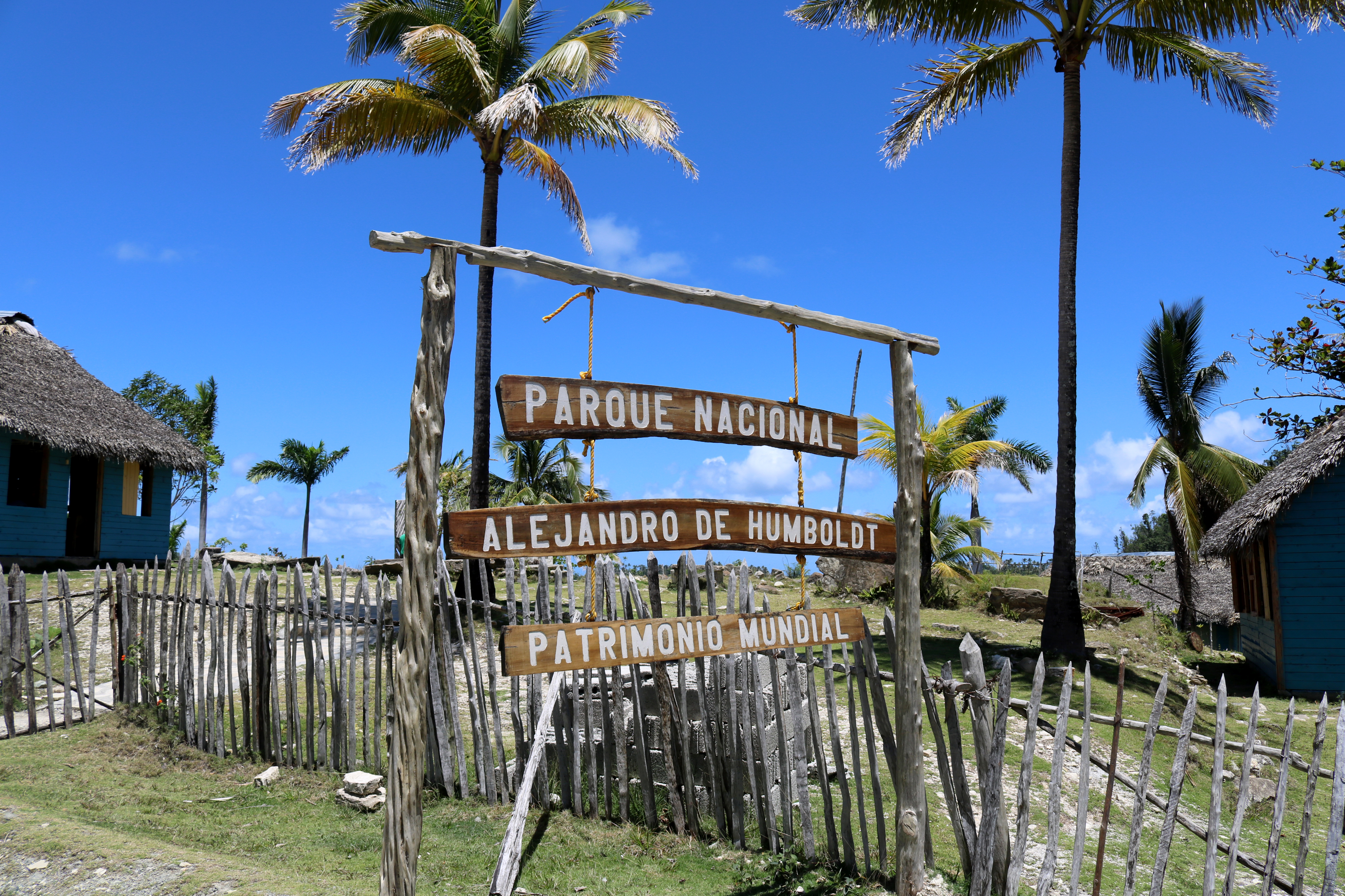 Visitor Center of the Alejandro de Humboldt National Park, in Cuba, Province Guantánamo and Holguín